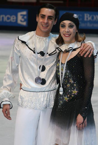 Federica FAIELLA / Massimo SCALI at the 2008 TEB.